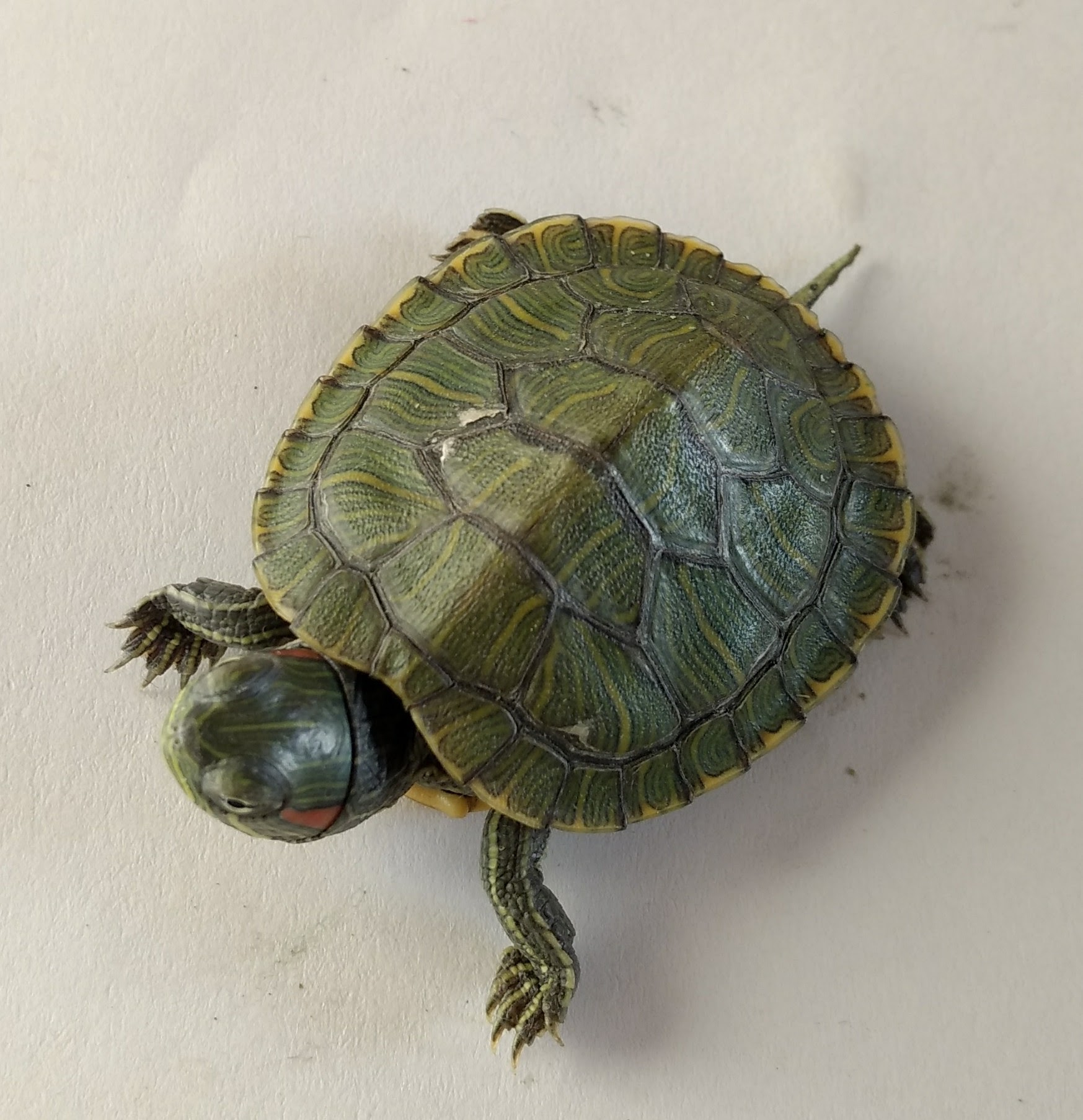 A young red eared slider turtle